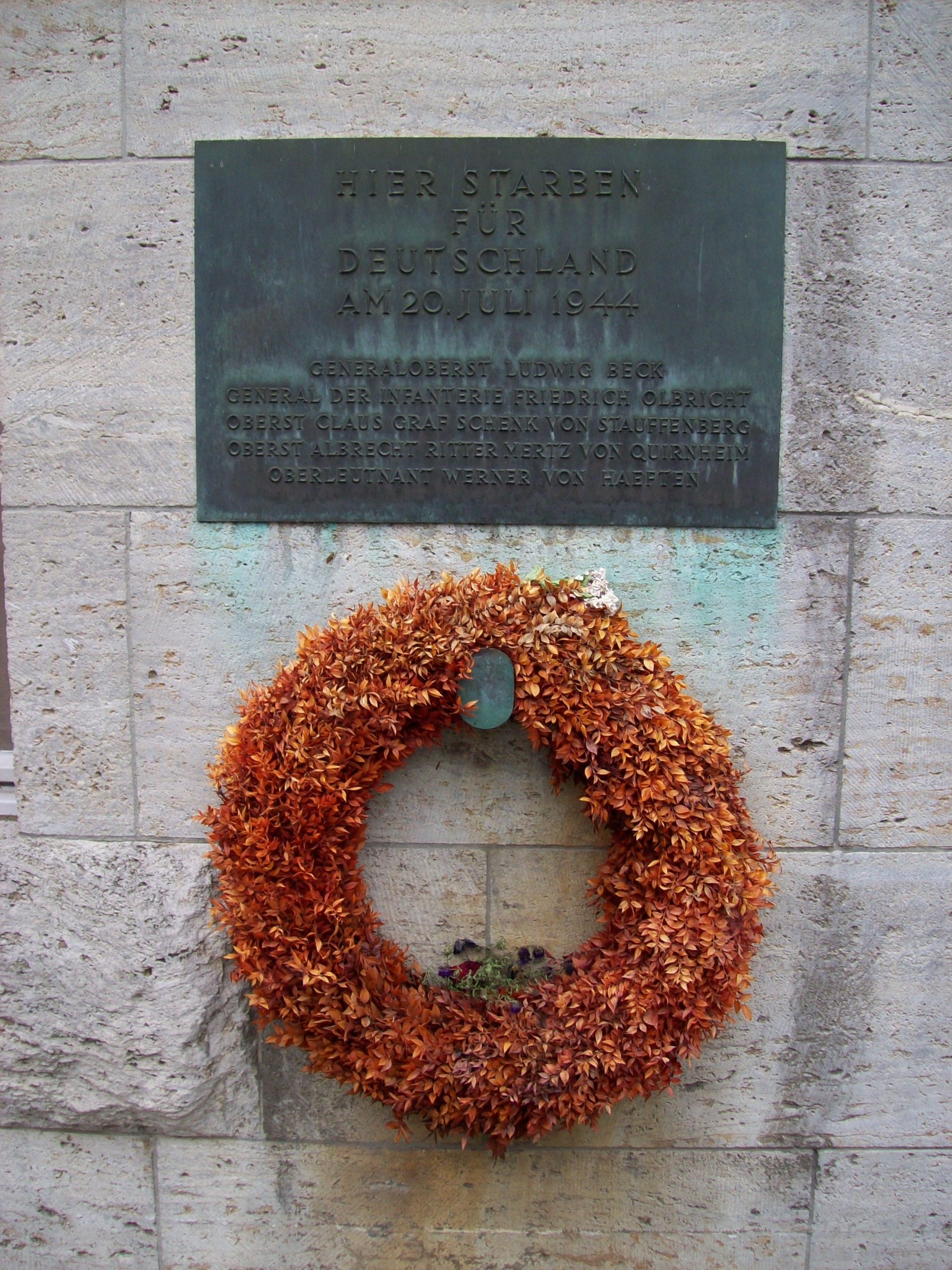 Plaque at the Bendlerblock (Berlin) in 2007